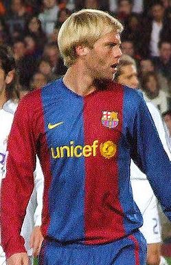 Eiður Guðjohnsen, Futbol Club Barcelona's player, during the match FC Barcelona-Real Madrid.